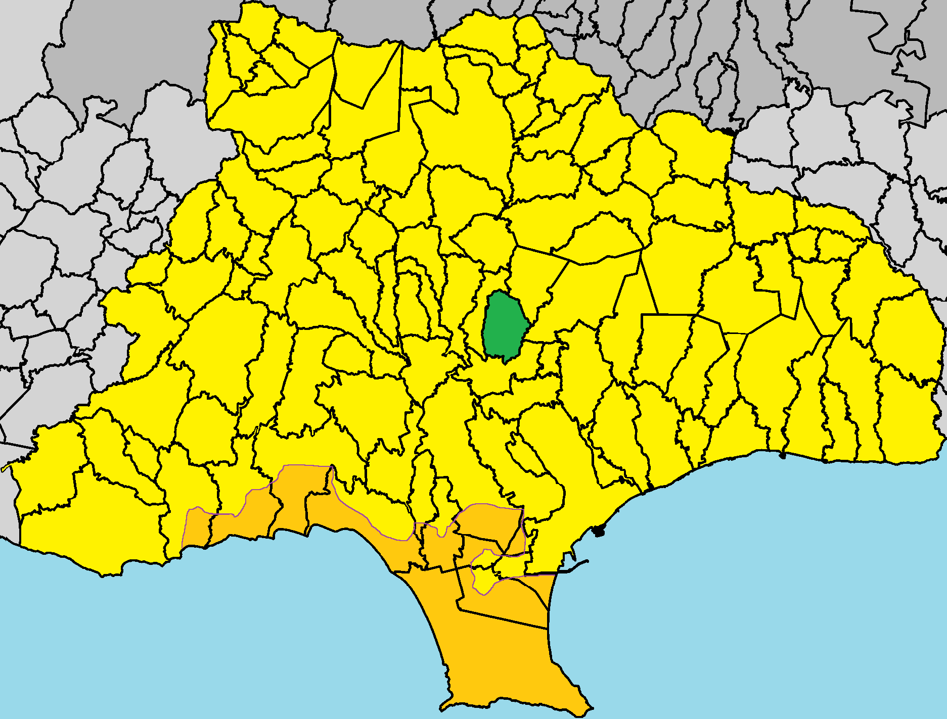 Apesia in Limassol District.